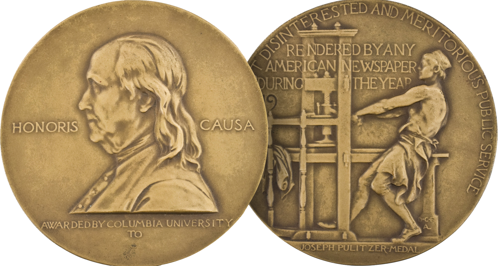 Obverse and reverse sides of the gold Pulitzer Prize for Public Service medal, which also serves as a symbol of the Pulitzer Prizes in general.